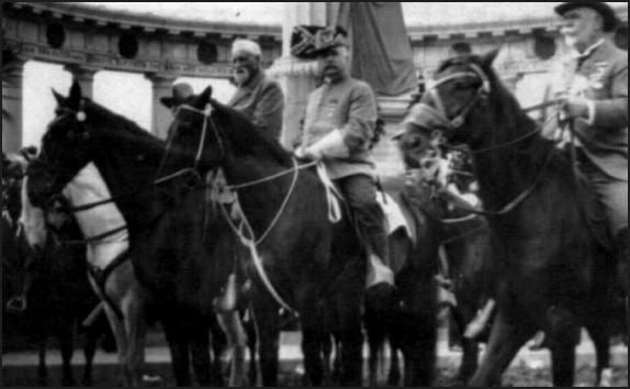 photo of Stephen Dill Lee (1833-1908)